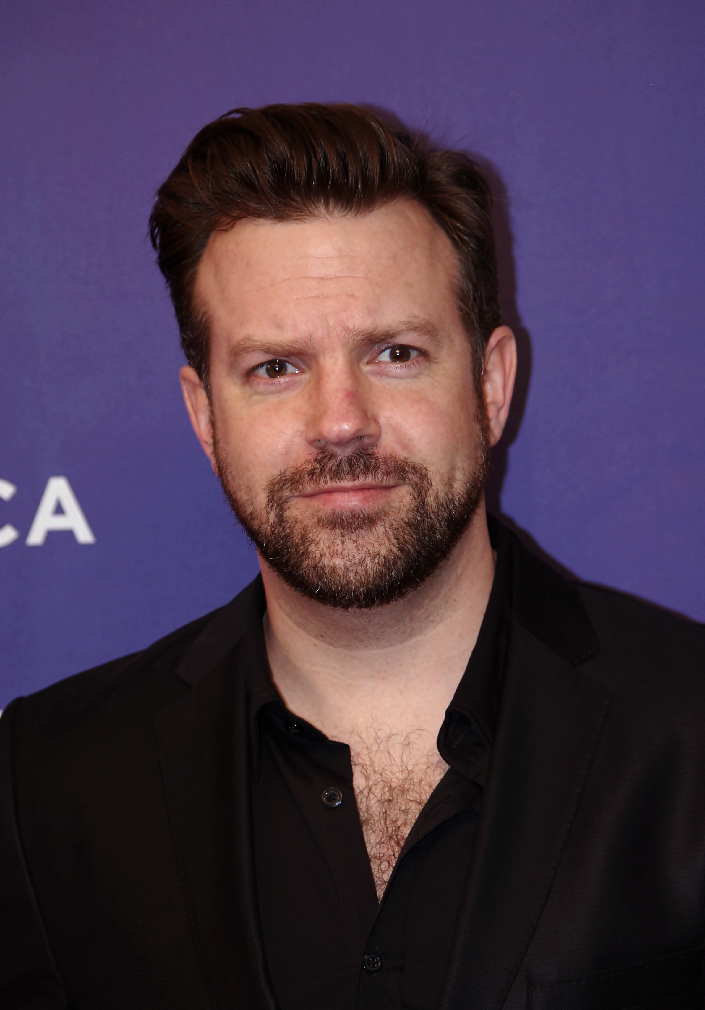 Jason Sudeikis at the 2011 Tribeca Film Festival premiere of A Good Old Fashioned Orgy.